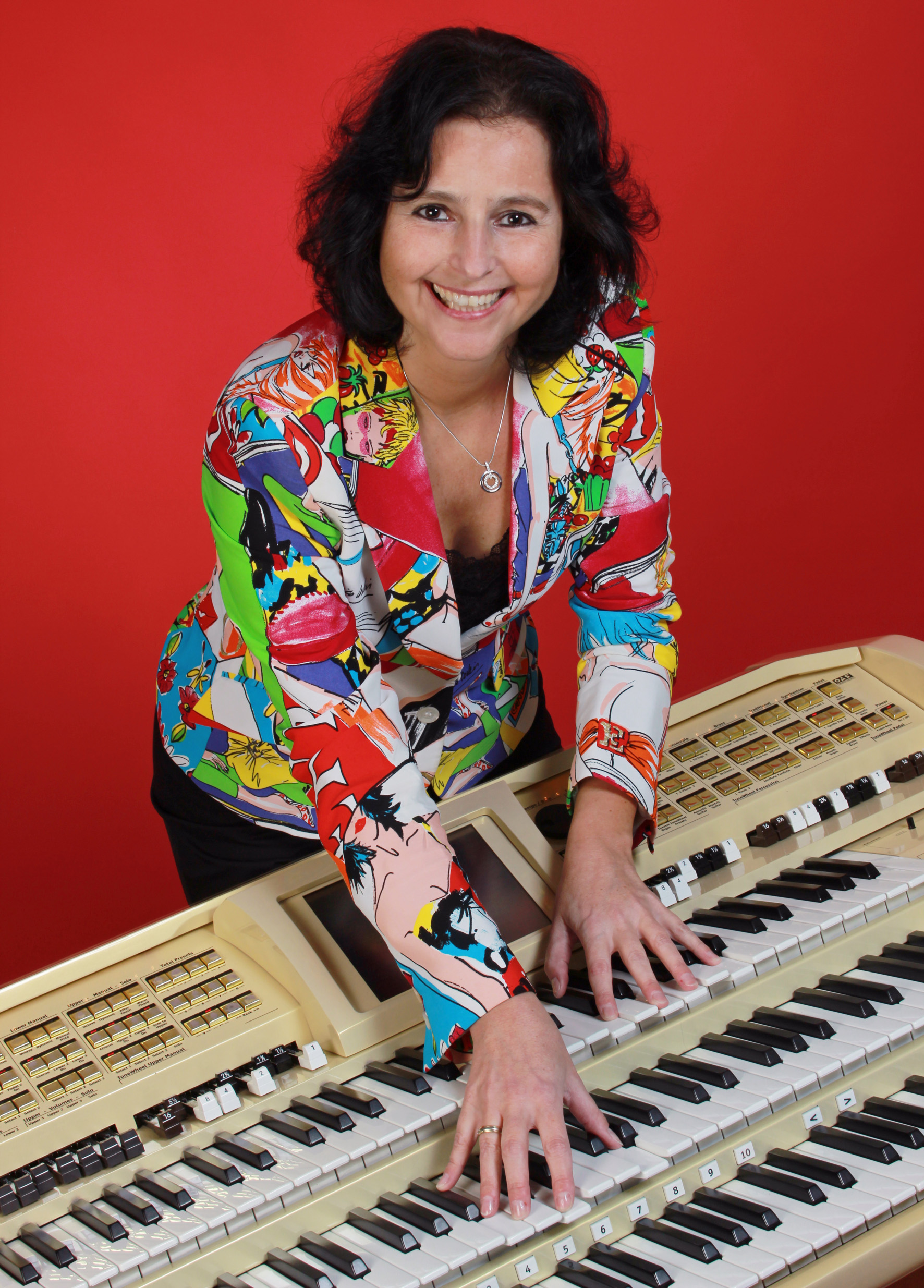 Claudia Hirschfeld at her Wersi Louvre organ